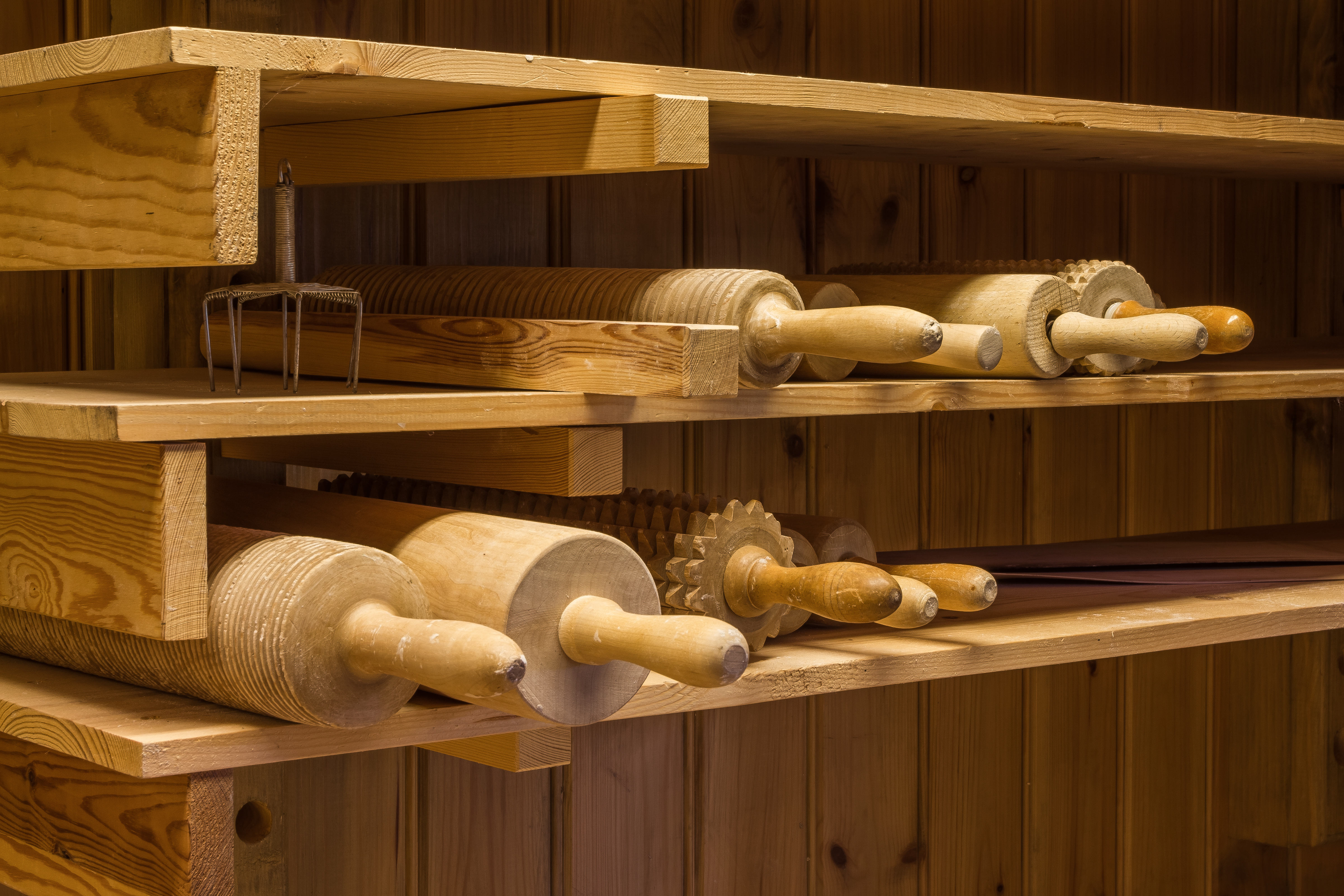 Rolling pins and other utensils in the bakehouse at local heritage centre Hedemora gammelgård, Sweden.